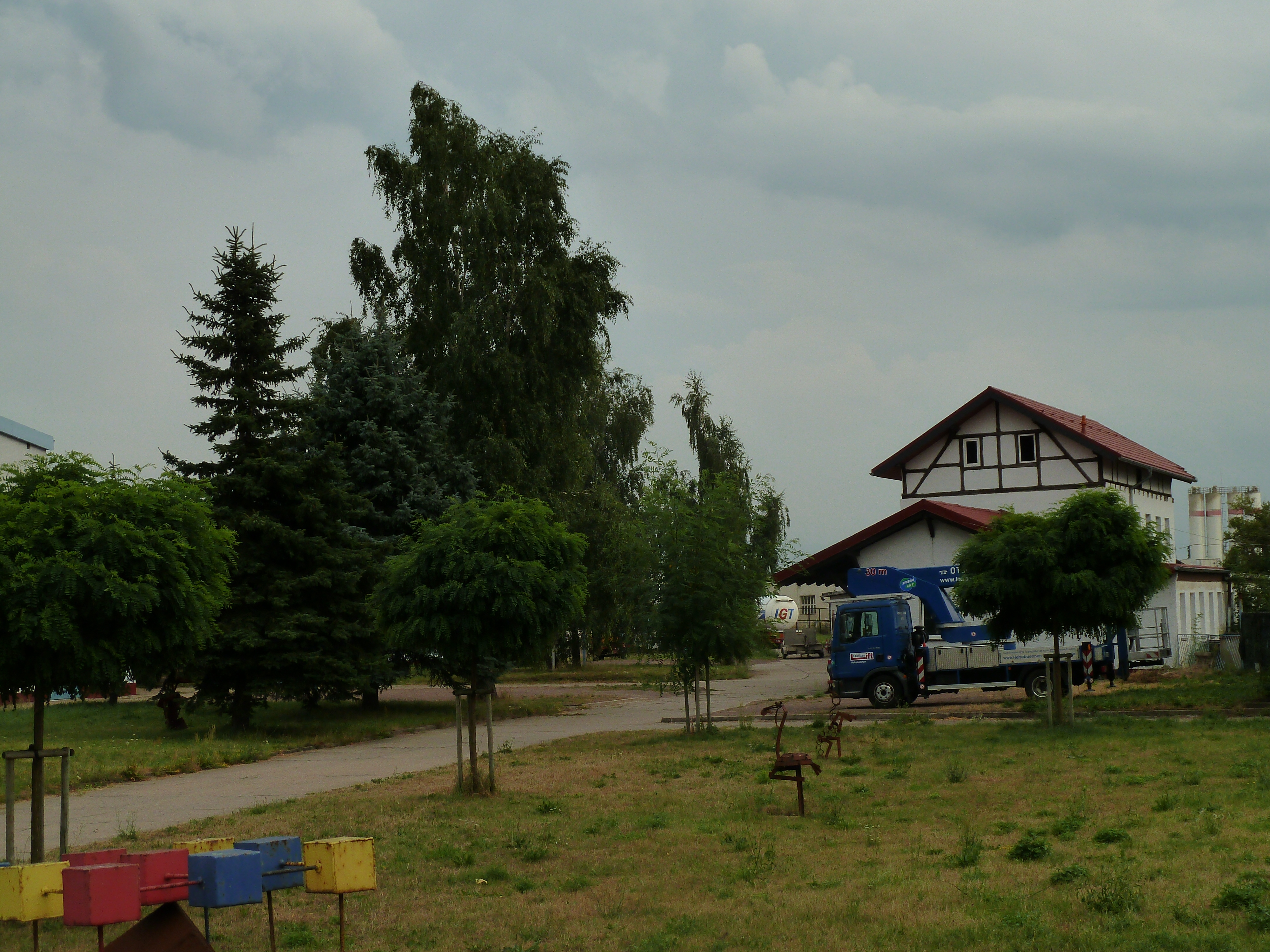 former narrow gauge station in Köthen